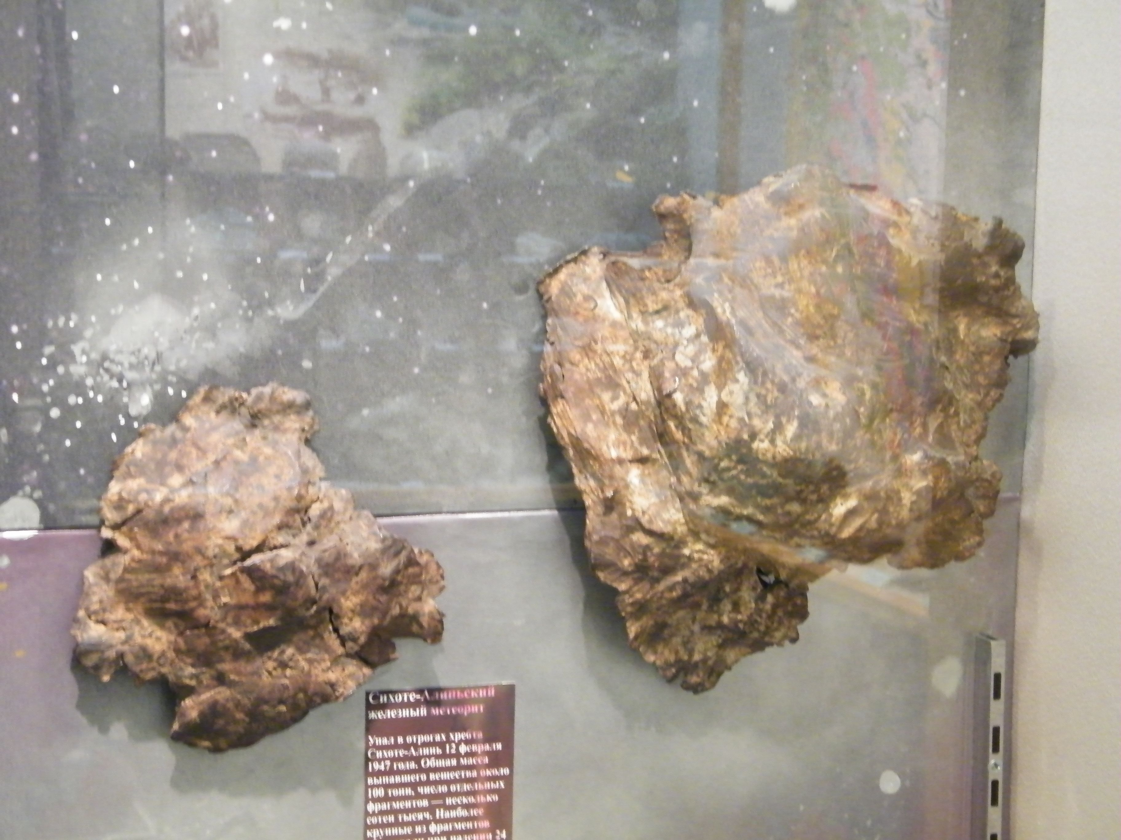 Сихотэ-Алиньский метеорит в Хабаровском краеведческом музее